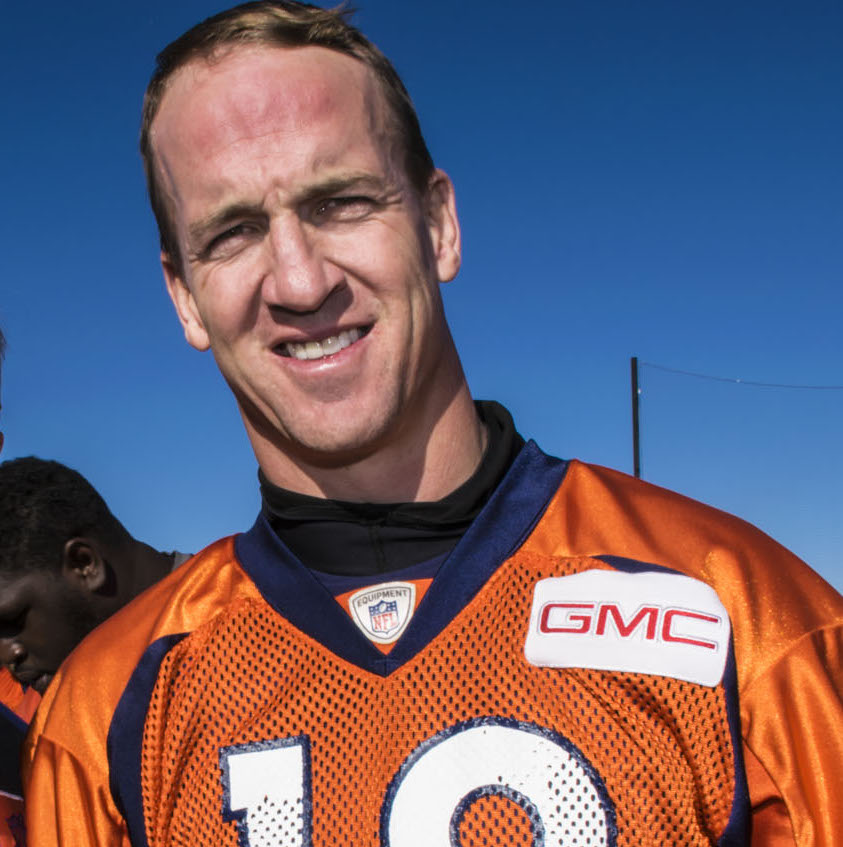 Denver Broncos quarterback, Peyton Manning, attending Denver Broncos' Military Appreciation Day on November 12, 2015.